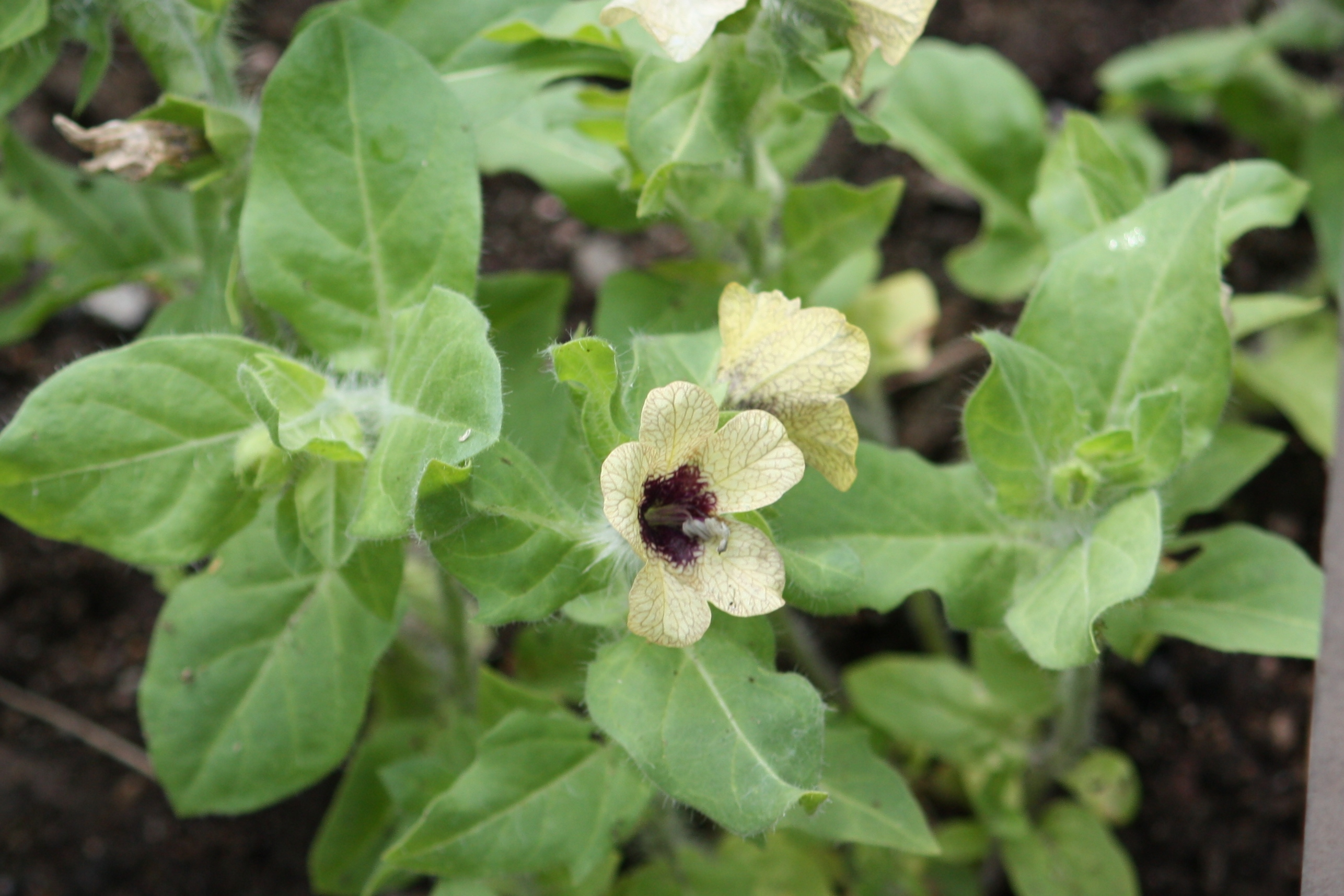 Henbane or Stinking Nightshade (Hyoscyamus niger) in Helsinki University Botanical Garden in Kumpula